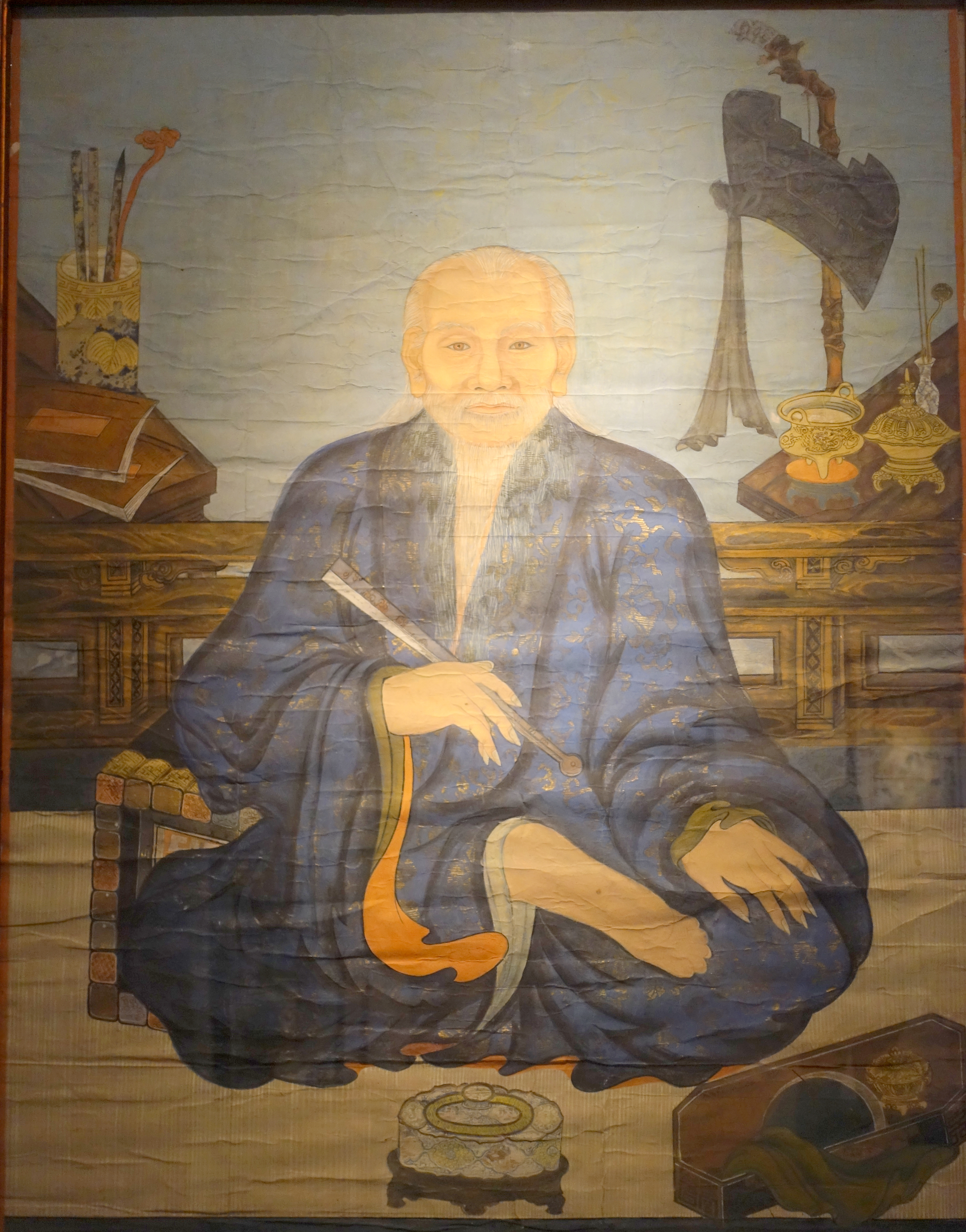 Mr Nguyen Quy Kinh (1693-1766), Dai Duong teacher of the crown prince, Worshipping house of the Nguyen Kinh family, Tu Liem, Hanoi, 1766 AD, gouache. Exhibit in the Vietnam National Museum of Fine Arts - Hanoi, Vietnam. This artwork is old enough so that it is in the public domain.